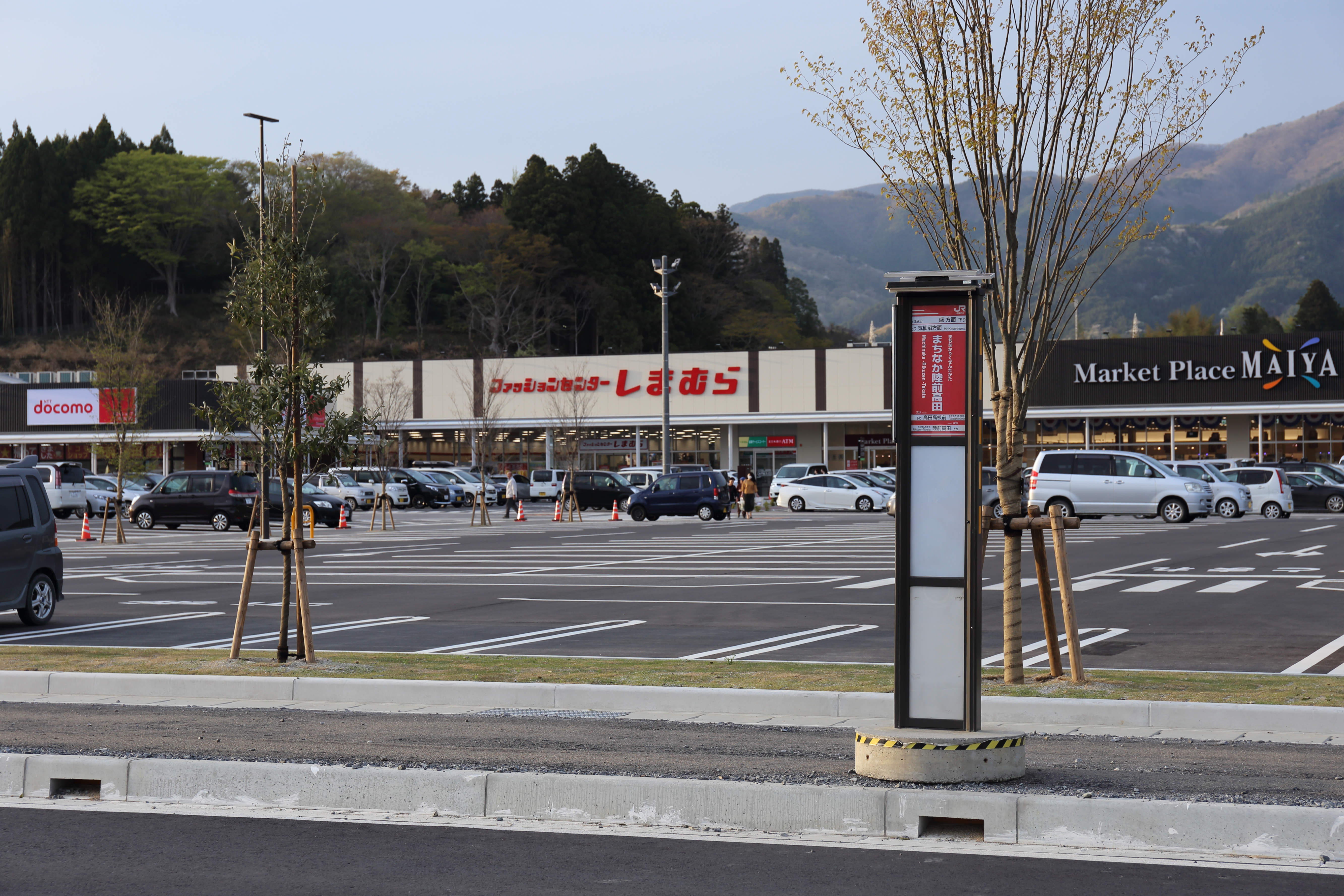 JR East Ofunato Line BRT Machinaka-Rikuzen-Takata Station in Rikuzentakata City, Iwate Prefecture, Japan